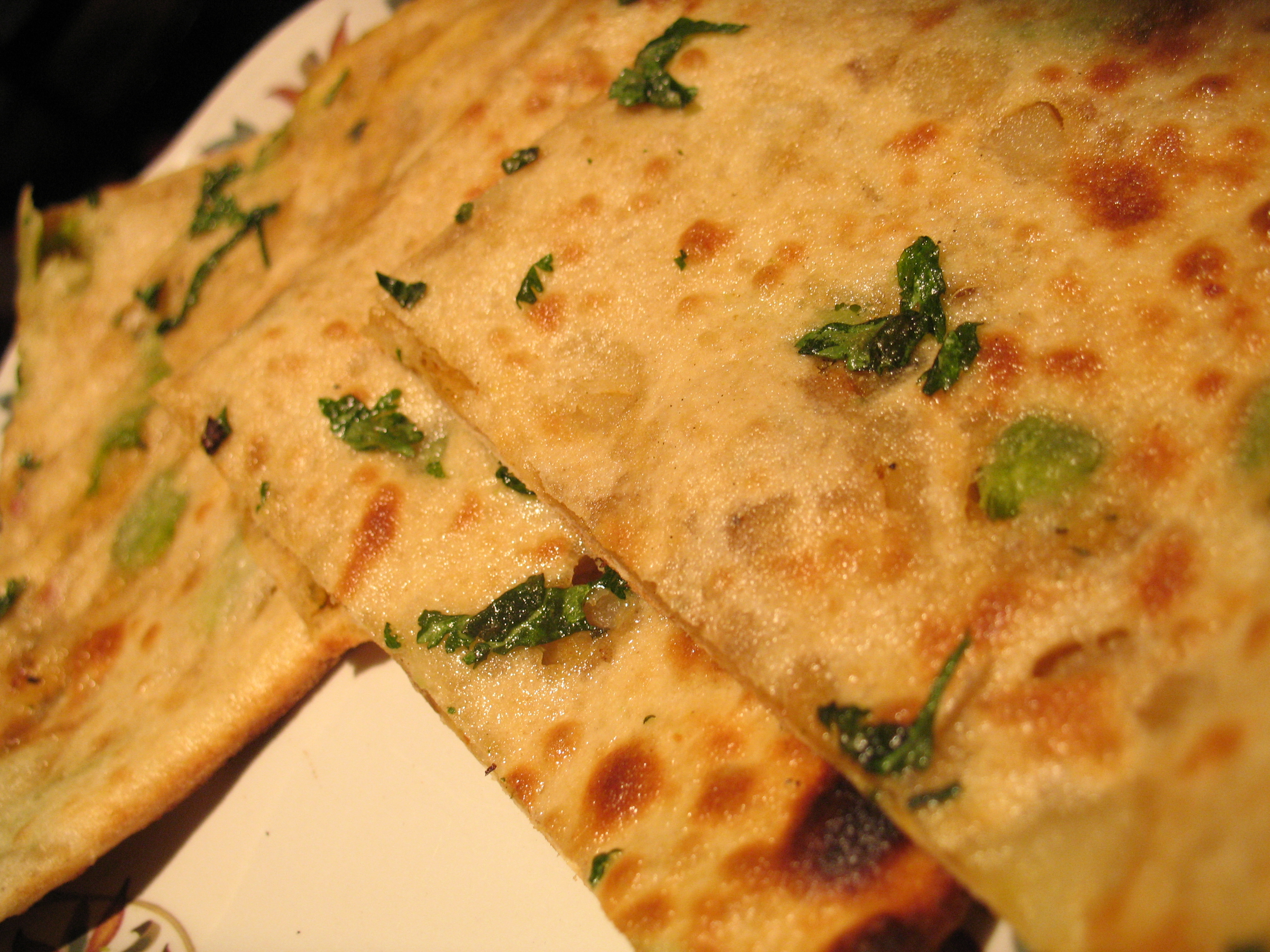 Picture of aloo (potato) paratha lying on a table at Le Taj restaurant.